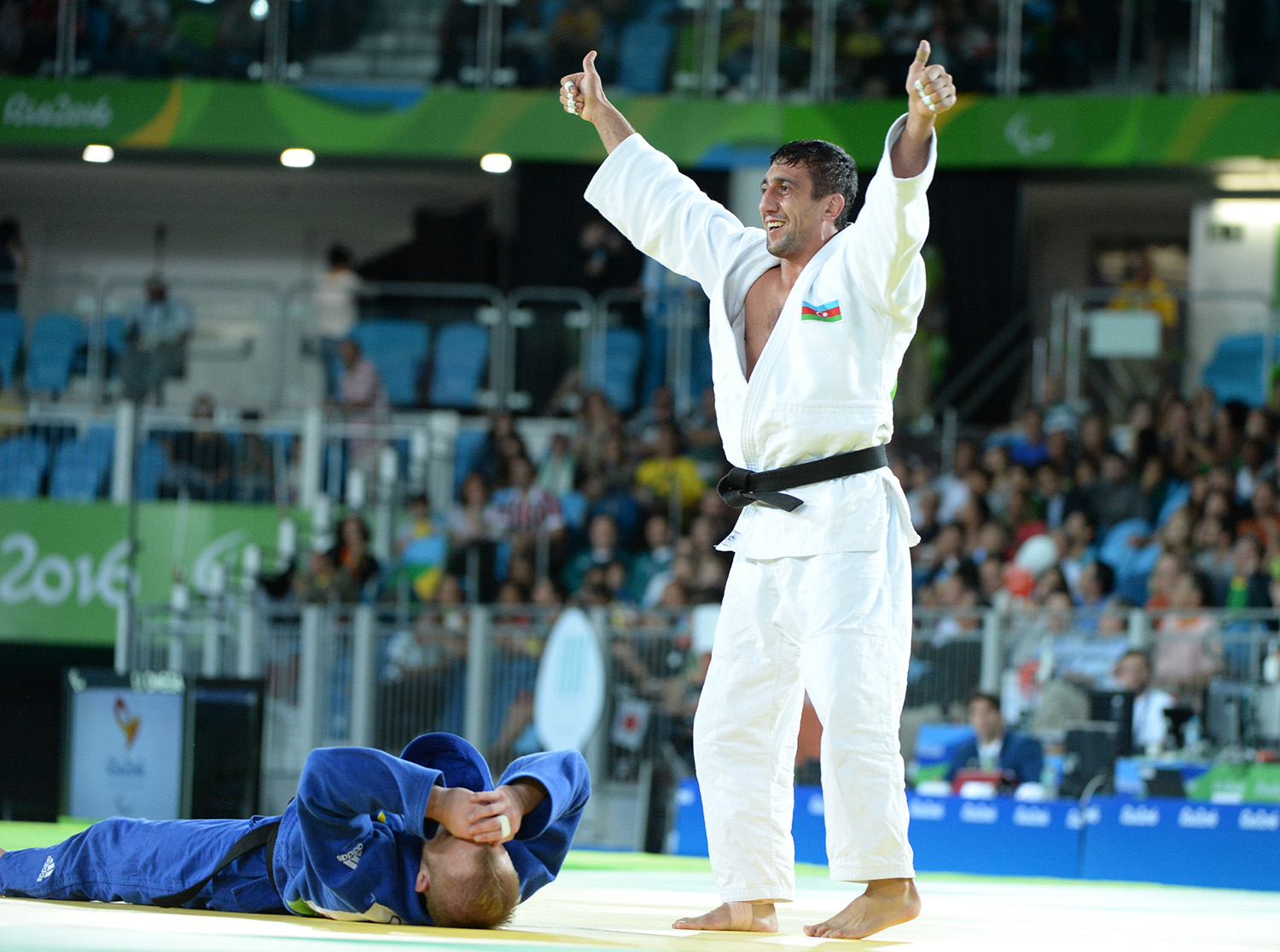 Judo at the 2016 Summer Paralympics – Men's 73 kg, Gasimov vs Solovey